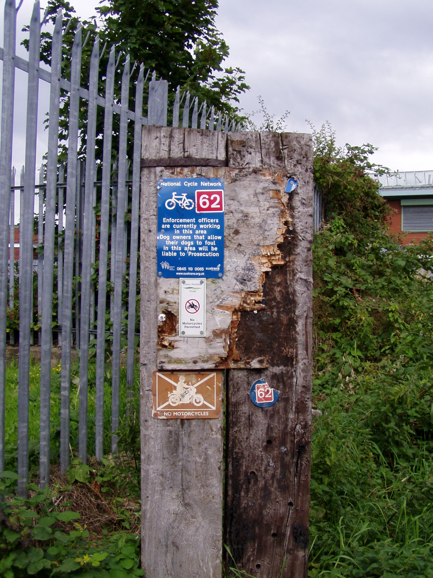 Sign in Walton on National Cycle Network route 62